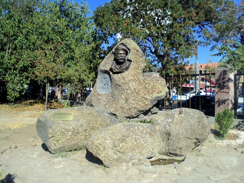 Monument to Karo Kahkejian